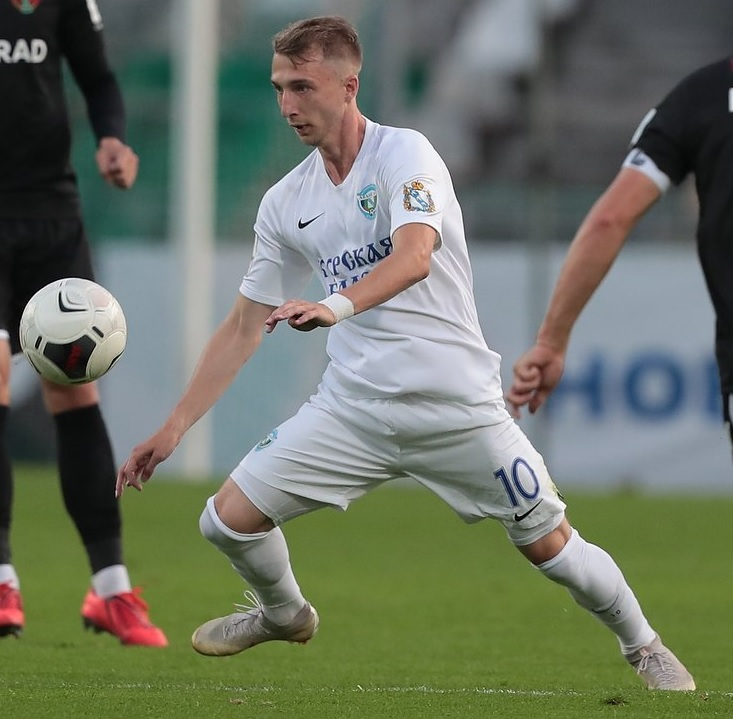 Artyom Fedchuk with FC Avangard Kursk in a game against FC Torpedo Moscow.